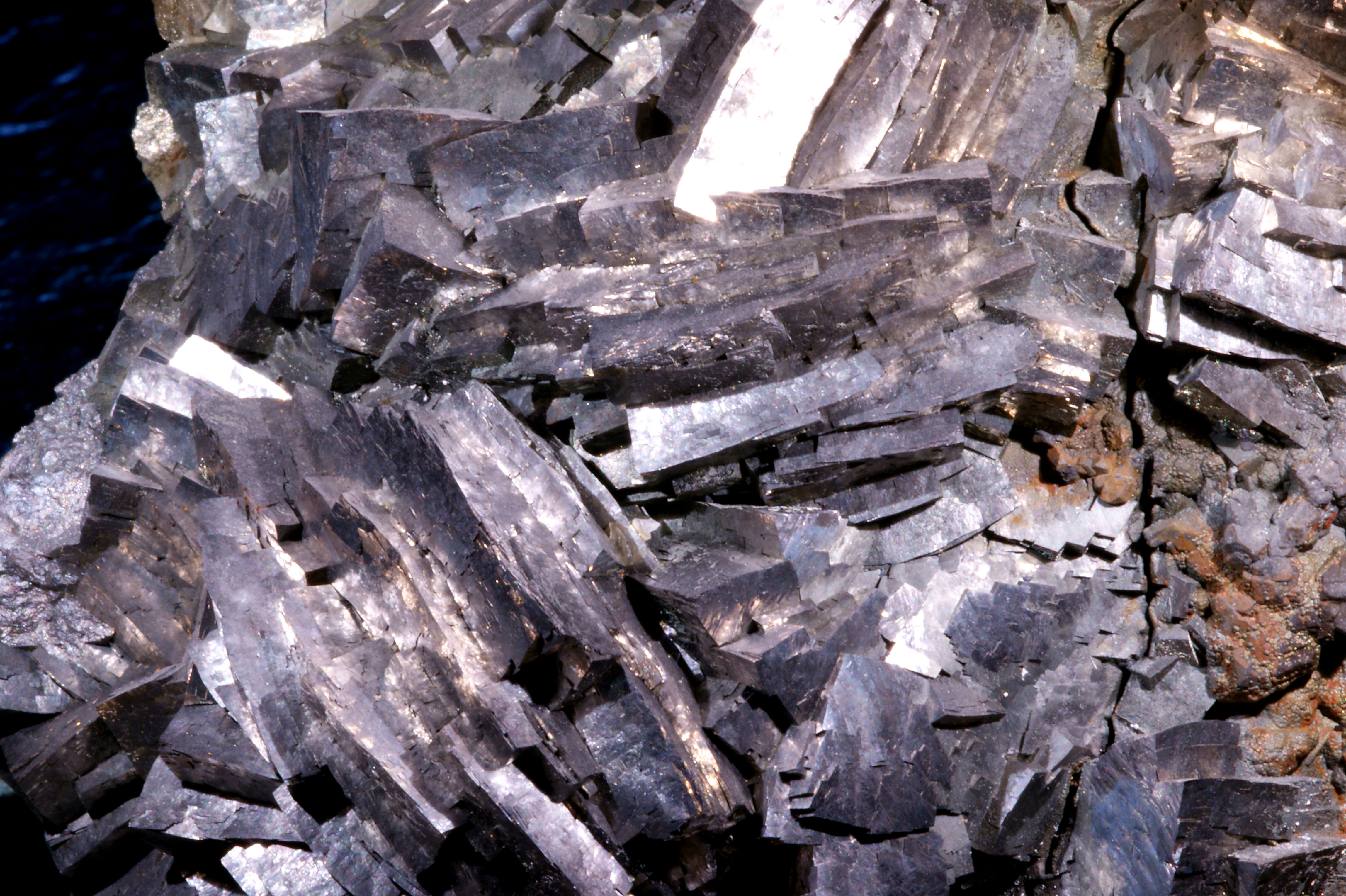 Arsenopyrite - mispickel - Trepça Kosovo